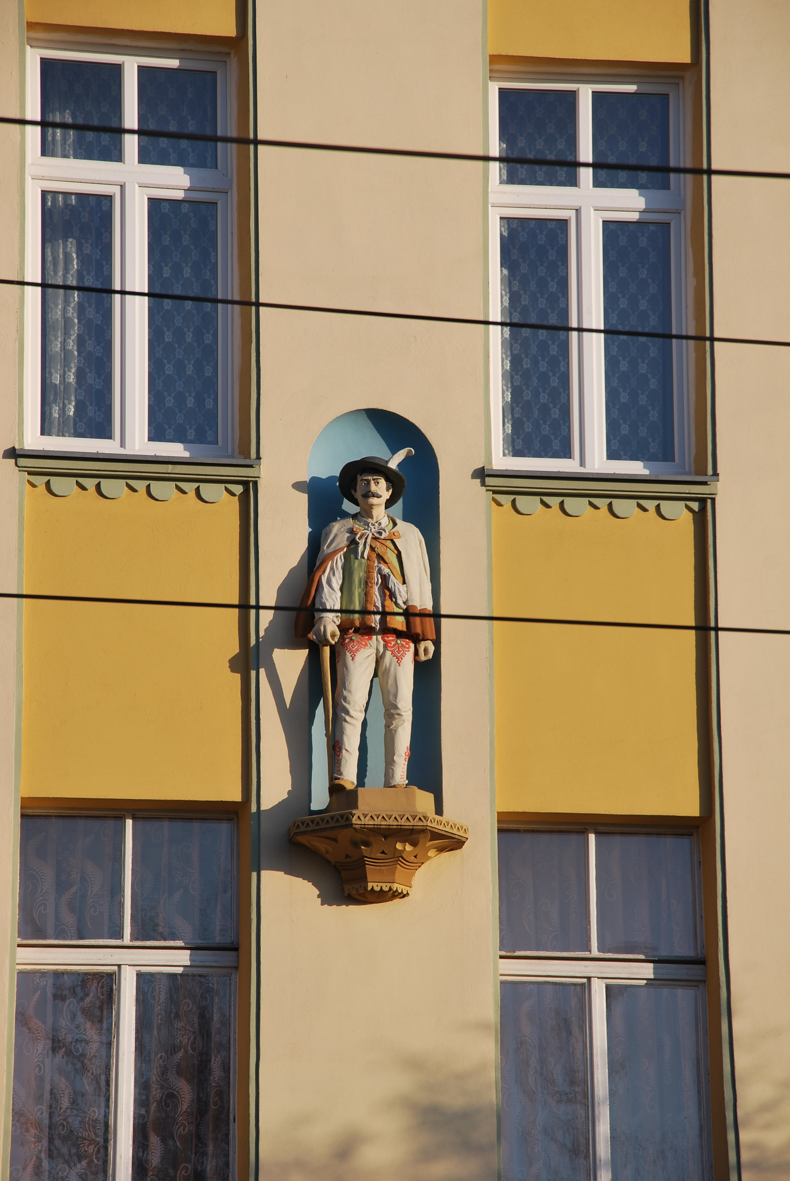 Góral on house, Łódź 292 Piotrkowska Street